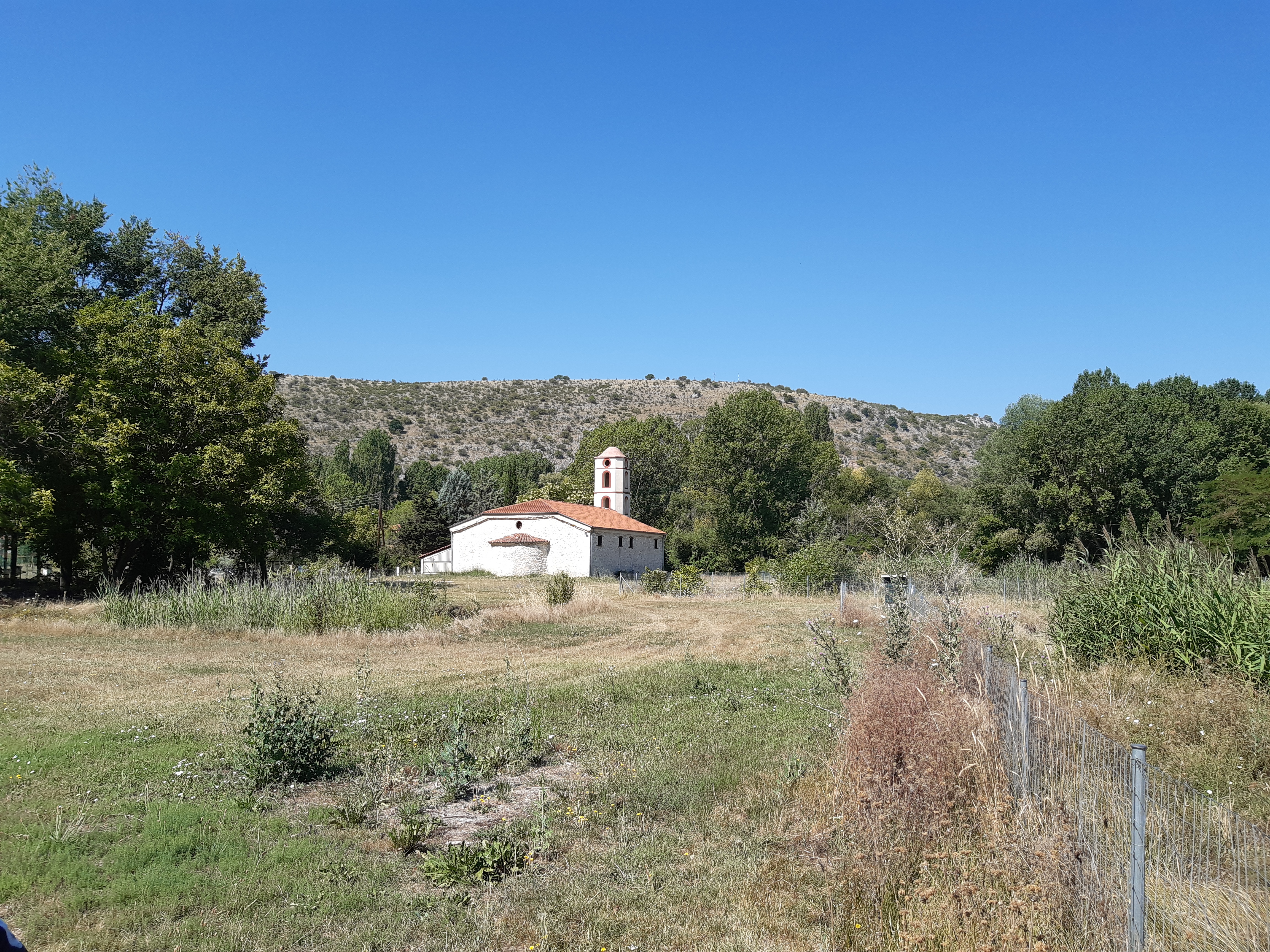 Dispilio Neolithic Settlement in August 2020